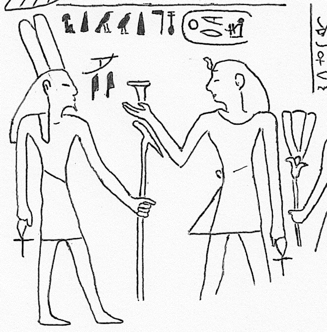 Drawing (closeup) of an ancient Egyptian stele. Pharaoh Merdjefare (right) is offering to the god Sopdu (left); the pharaoh is escorted by the treasurer Ranisonb, the owner of the stele (far right, only partially visible). Reign of Merdjefare, 14th Dynasty. Original probably from Saft el-Hinna, and now in the Bernard Krief private collection. [ref: Jean Yoyotte, Le roi Mer-Djefa-Rê et le dieu Sopdu, Un monument de la XIVe dynastie, Bulletin de la Société française d'égyptologie 114 (1989), pp.17-63]